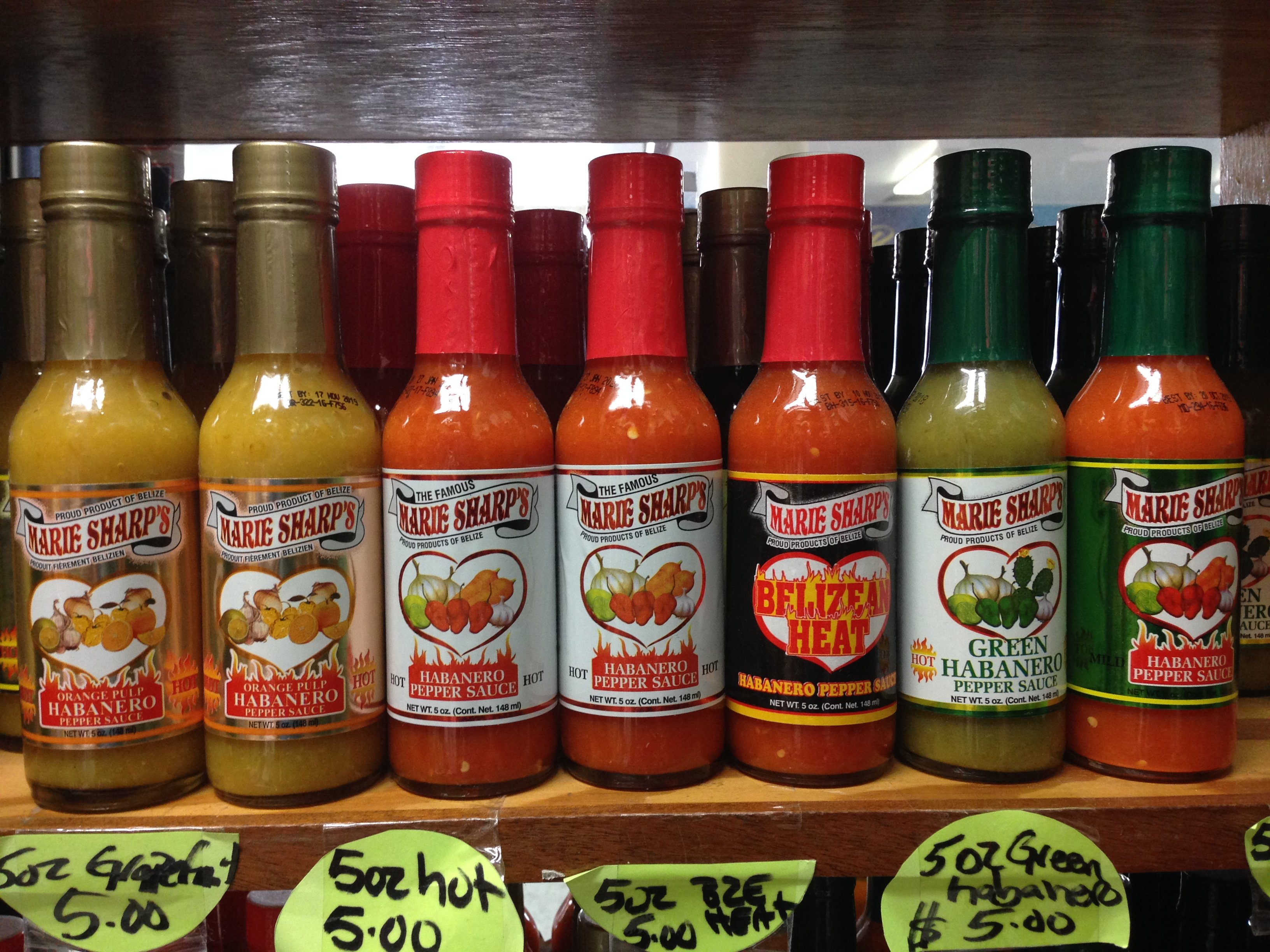 A variety of Marie Sharp's hot sauces for sale in Belize